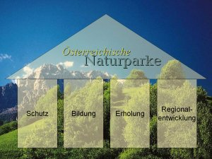 4-Säulen Modell der Österreichischen Naturparke